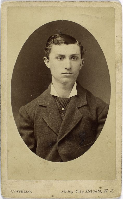 Tom Poorman